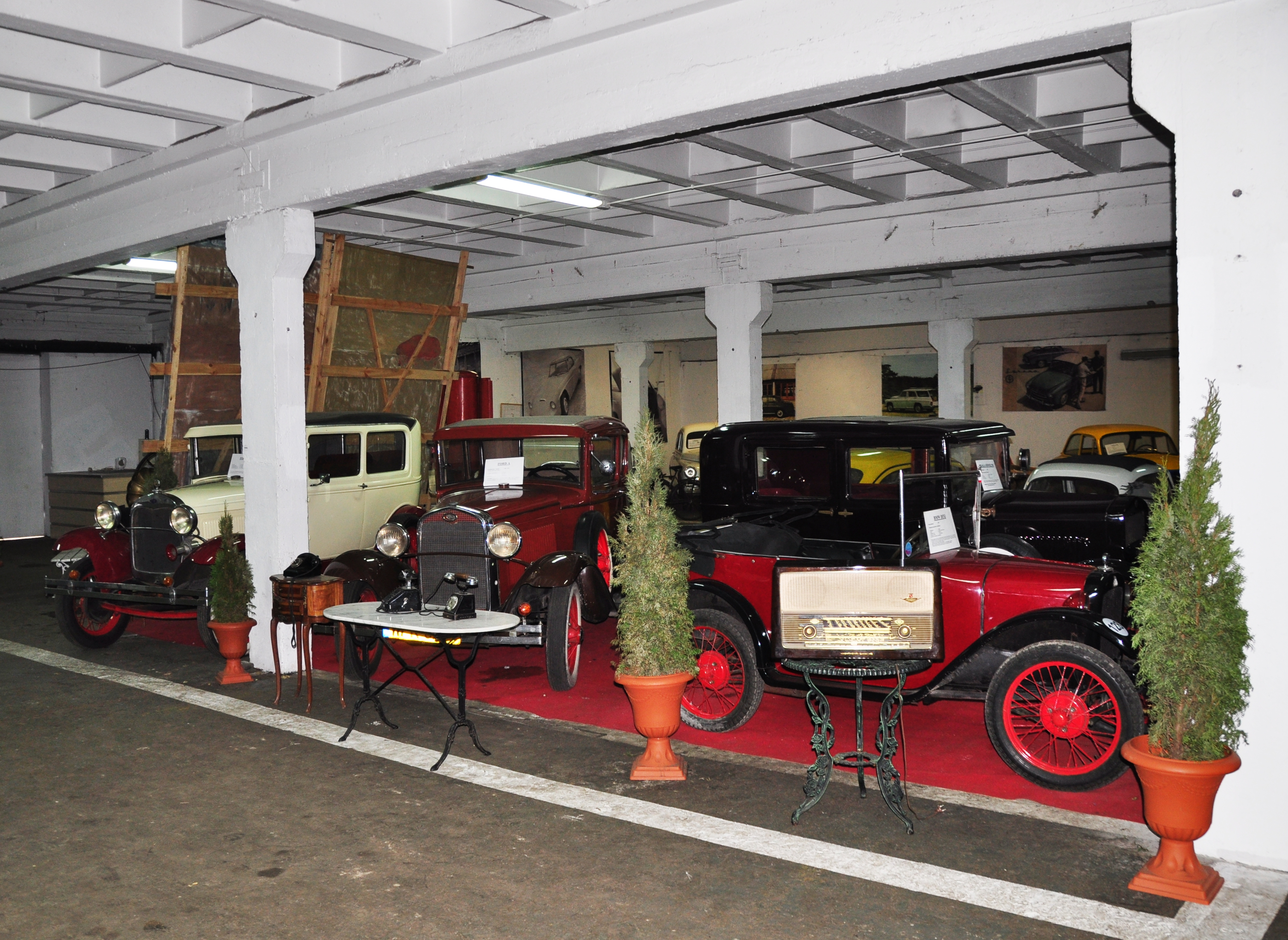 Motor Museum (Otrębusy) in Koneser Factory